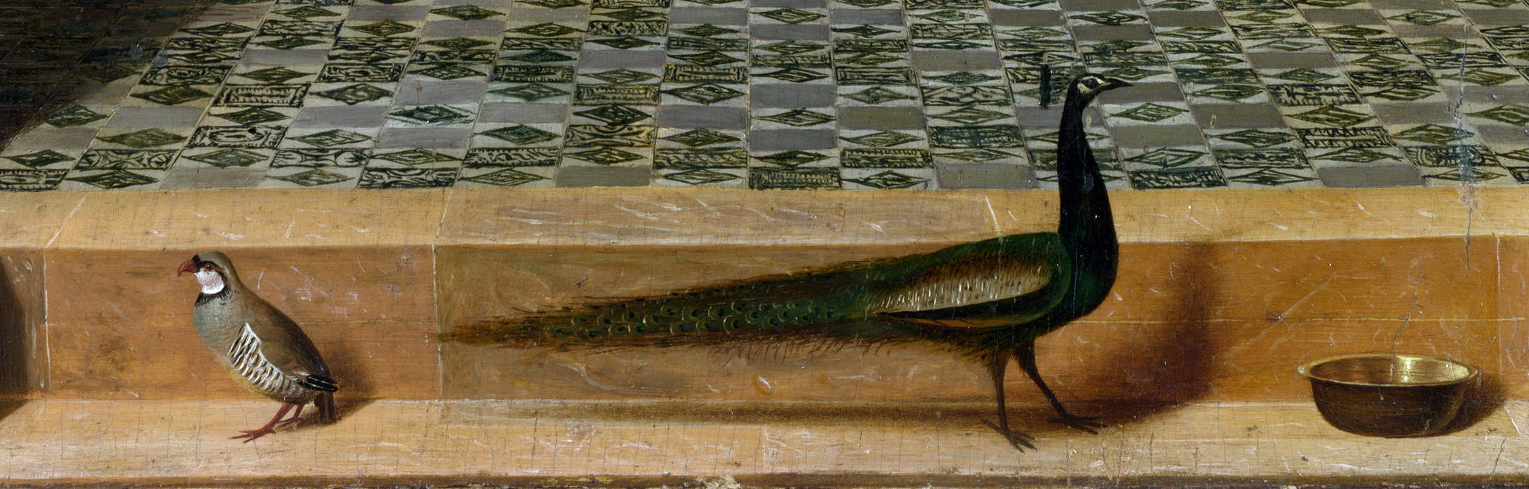 Antonello's Saint Jerome in his study detail